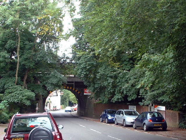 Railway bridge at Shawford. The Waterloo - Southampton mainline crosses over Shawford Road in the small village of Shawford, south of Winchester. The entrance to the up platform can be seen behind the Ford Ka.